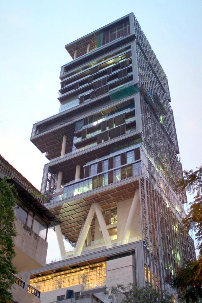 Mukesh Ambani's house "Antilia" in Mumbai.